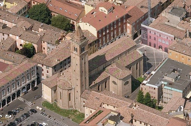 Il duomo di Cesena